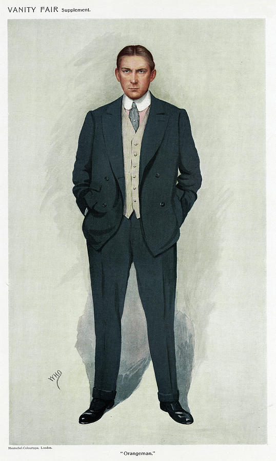 Caricature of Captain James Craig JP MP. Caption read "Orangeman".